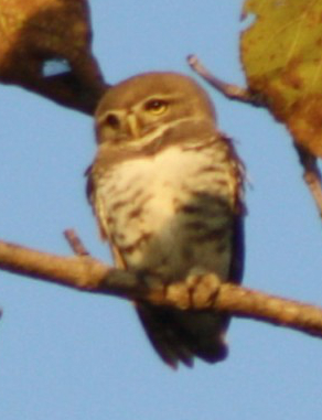 Forest Owlet Heteroglaux blewitti in Melghat Tiger Reserve, Maharashtra.